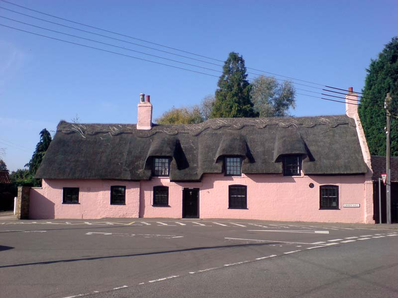 This beautiful grade II listed residential cottage was formerly the Three Horseshoes Public House in Little Thetford. The village no longer has any such establishments. Shame.